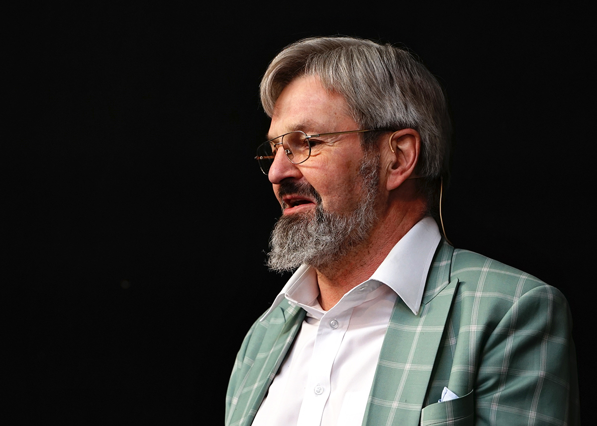 Erland Kolding Nielsen - Danish historian, librarian and director general of Royal Library, Denmark at the historical festival and trade fair "Historiske Dage 2016" in Copenhagen